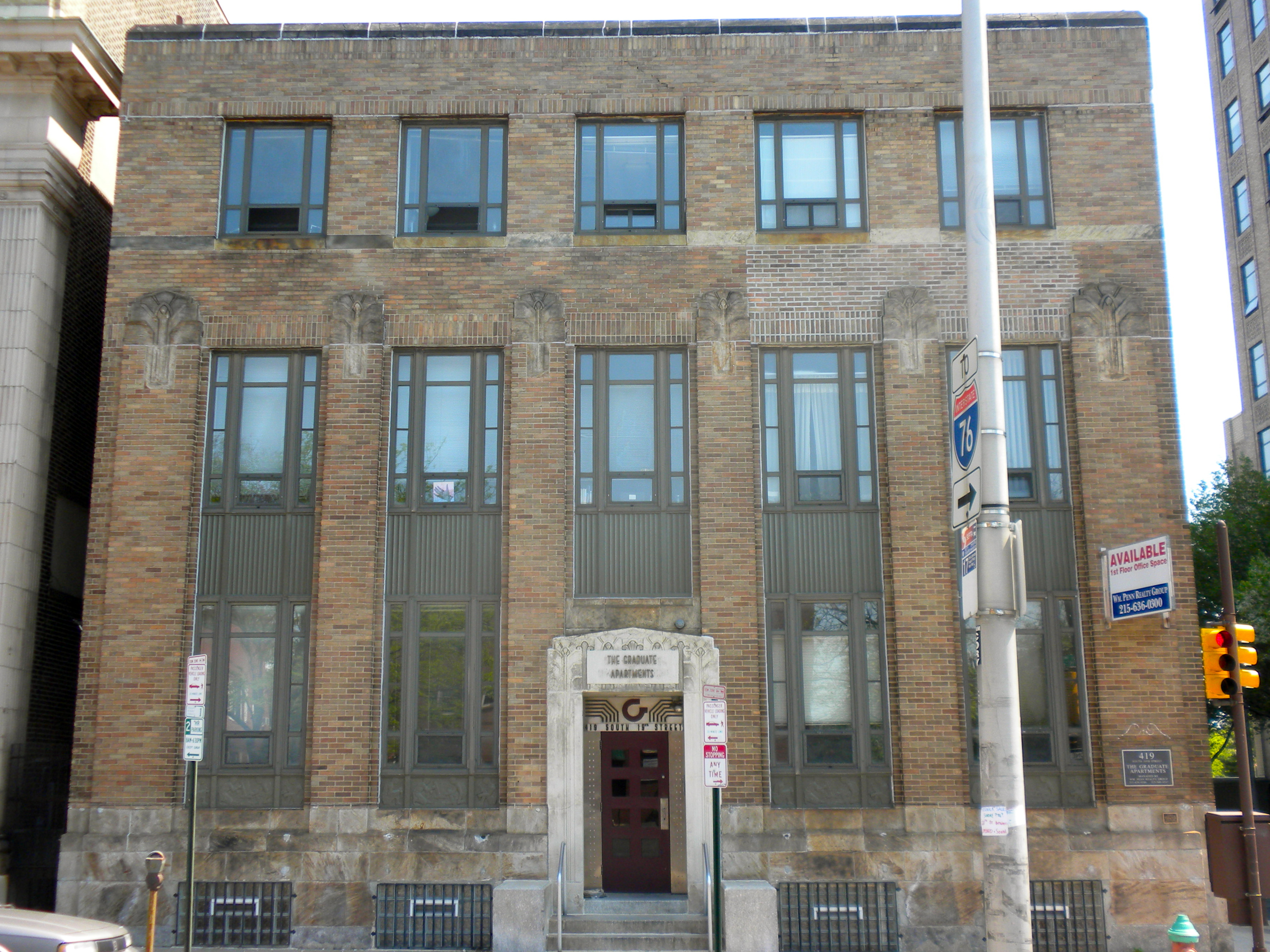 Philadelphia School of Occupational Therapy, on NRHP since June 13, 2003. At 419 South 19th Street in Rittenhouse Square West neighborhood of Philadelphia. Now "Graduate Apartments" Nice artwork under windows